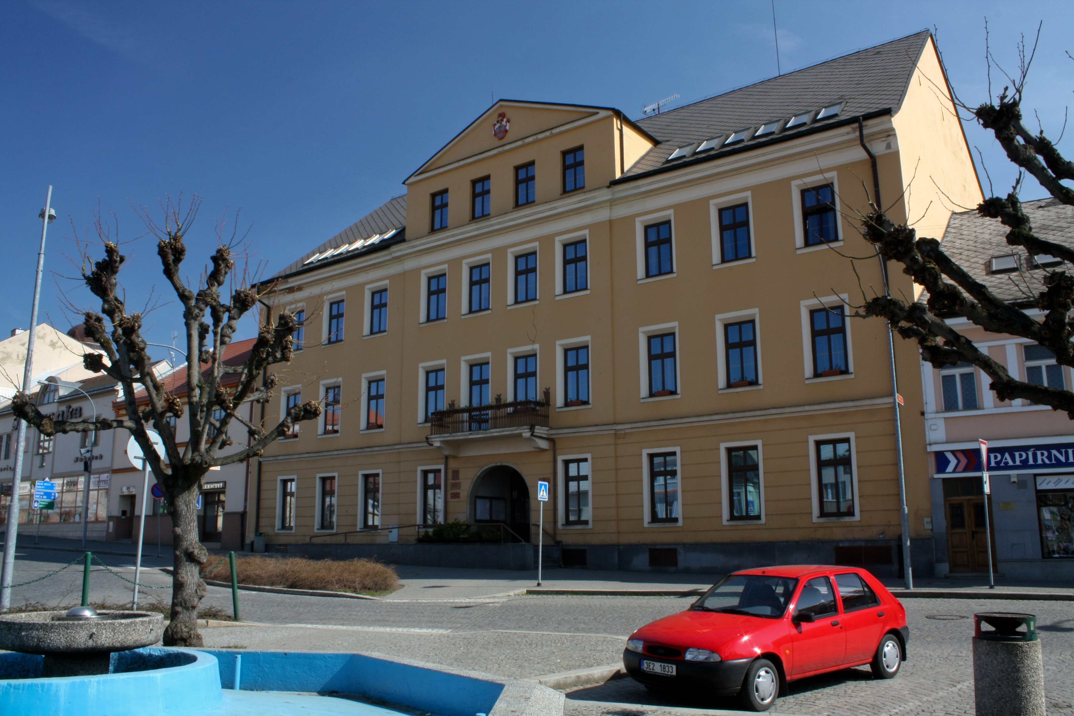 Ledeč nad Sázavou, Havlíčkův Brod District, Czech Republic Object location49° 41′ 46″ N, 15° 16′ 30″ E